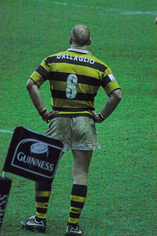 Lawrence Dallaglio from back with the London Wasps shirt.